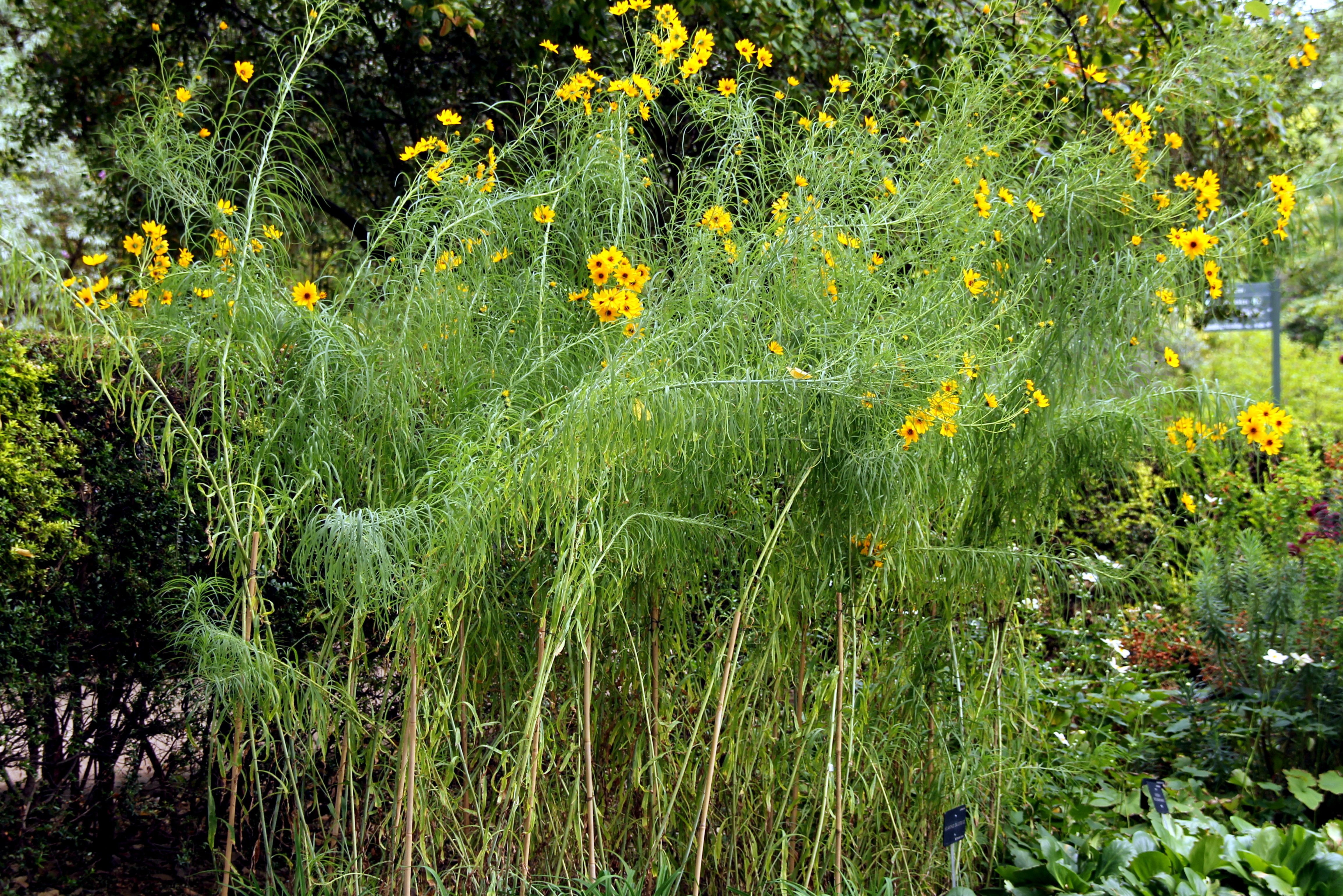 Helianthus salicifolius - Willow-leaved sunflower